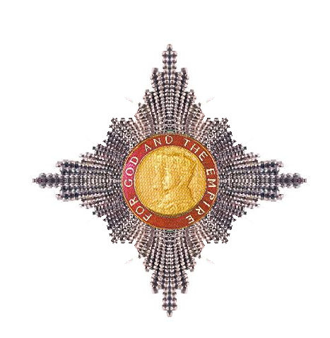 Star